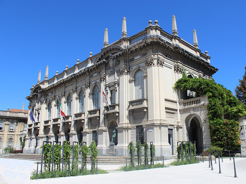 Rettorato of Politecnico di Milano